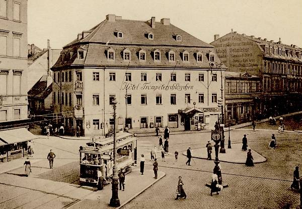 Hotel Trompeterschlößchen in Dresden, motive on a post card (cropped), send in August 1922